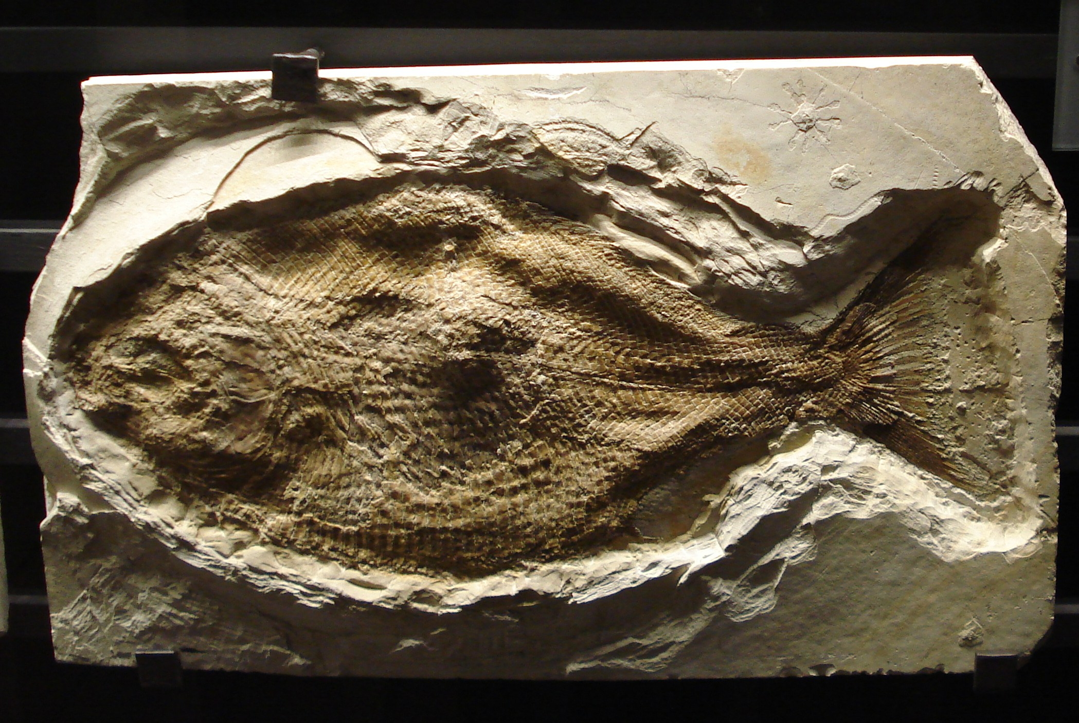 fossil heterostrophus